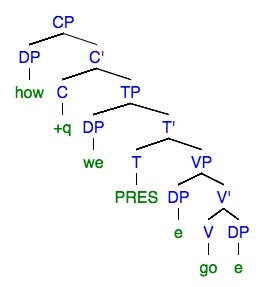 Phrase tree structure for grammatical idiomatic phrase "how we go!"